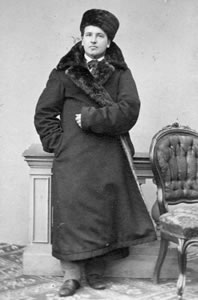 Finnish industrialist Johan Parviainen in late 1860s in St. Petersburg